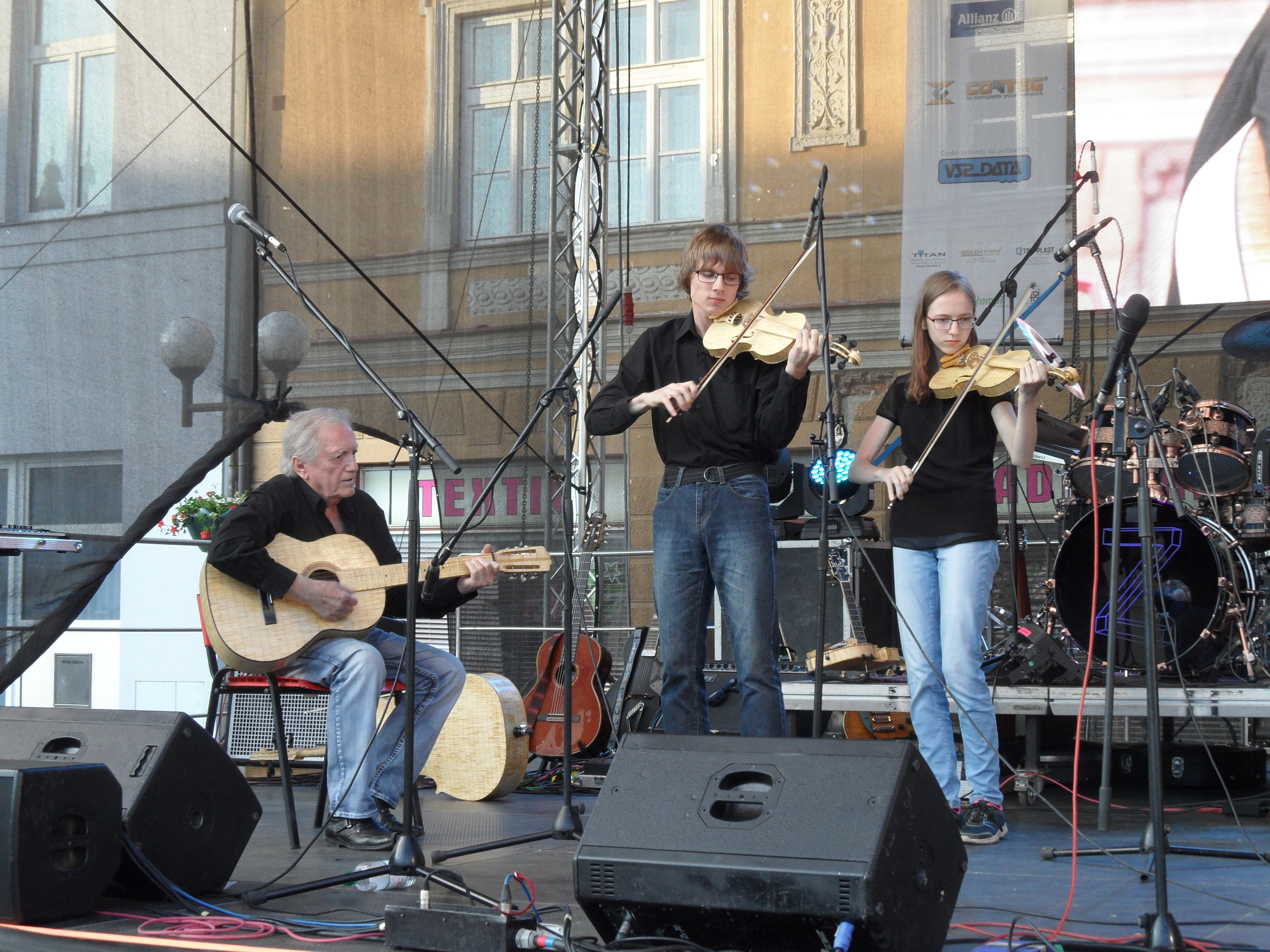 Festival Pelhřimov – the City of Records 2017, Evening Programme: Jiří Bečvář and Family: the largest collection of musical instruments created from matches. Pelhřimov District, the Czech Republic.